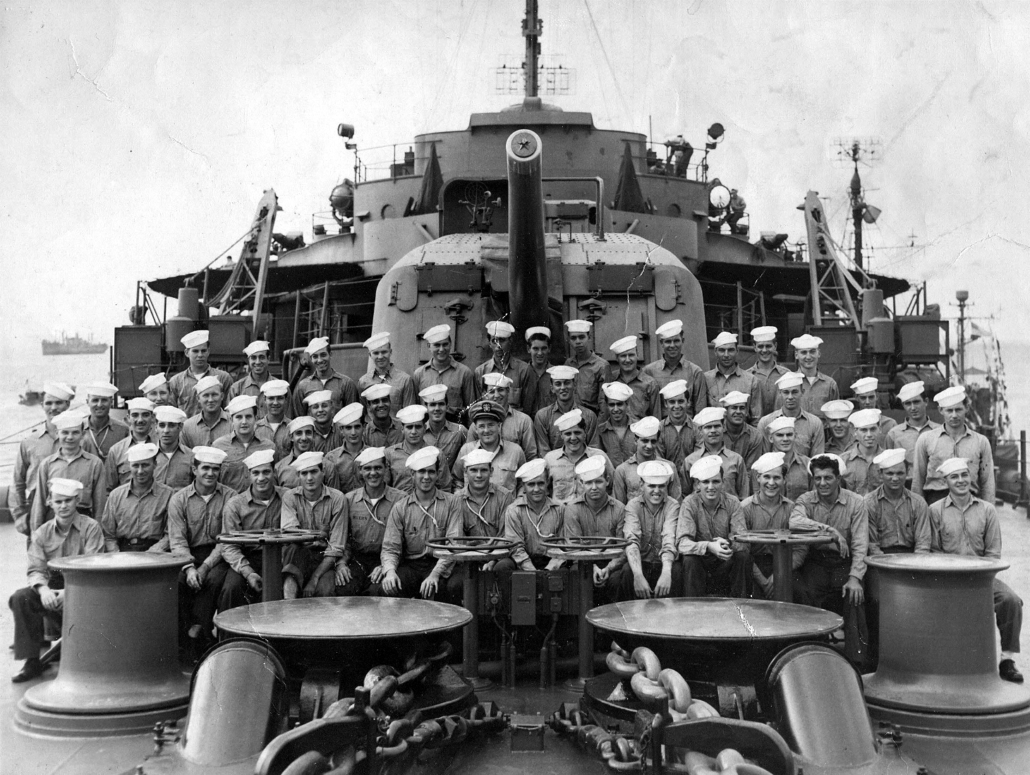 Crew photo aboard the U.S. Navy destroyer tender USS Sierra (AD-18), in Shanghai, China, 12 October 1946.